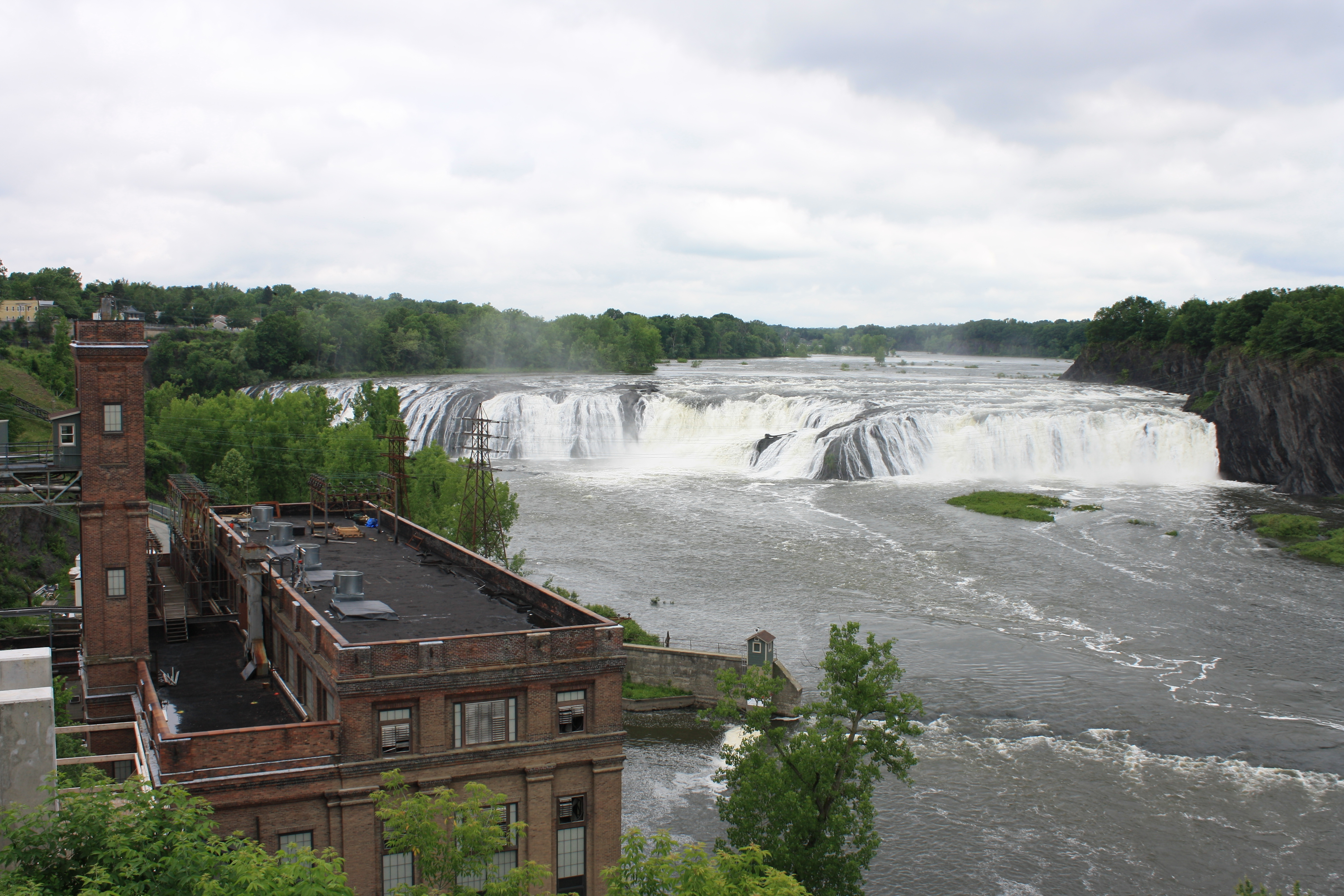 Depicted place: Cohoes Falls